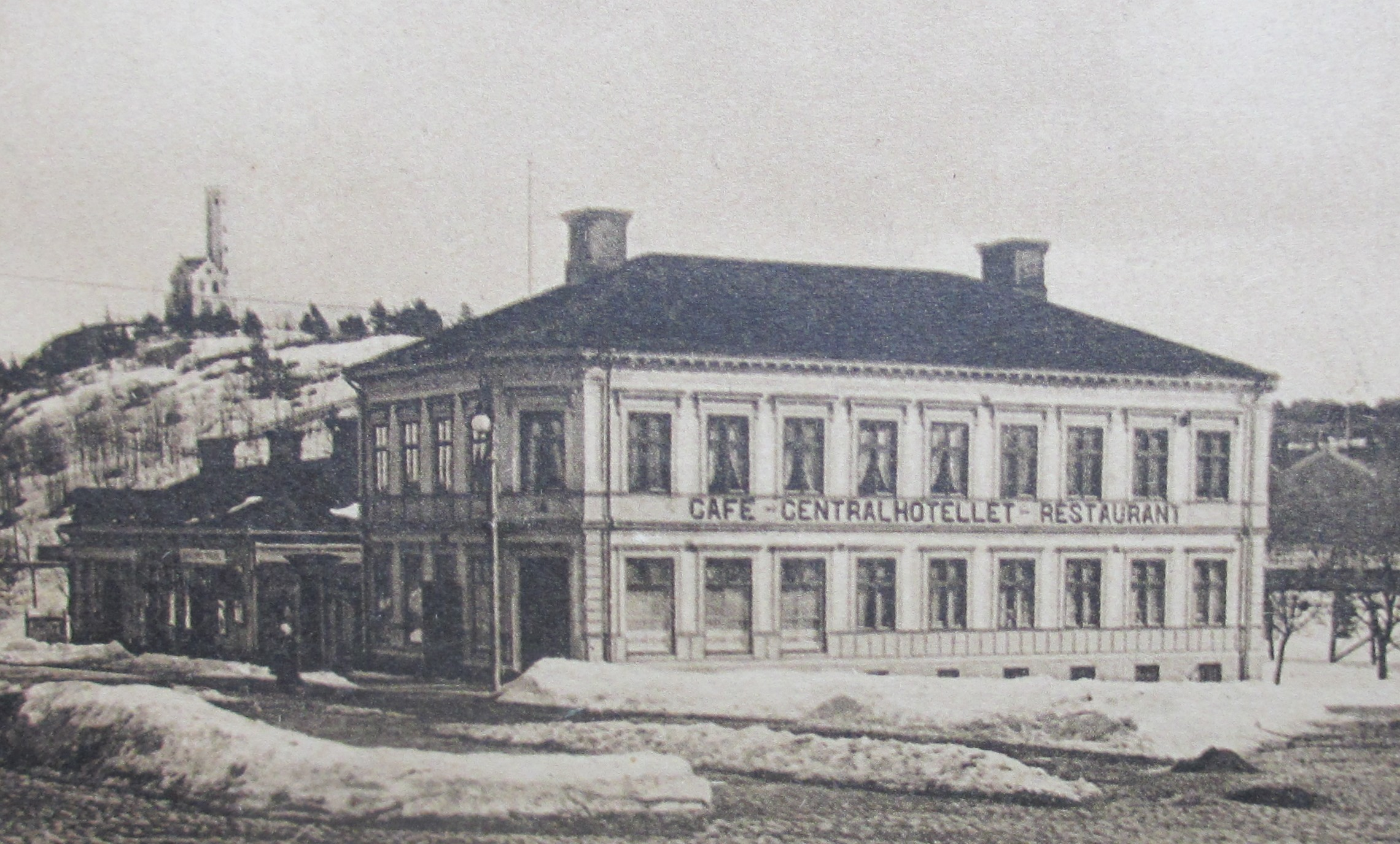 Centralhotellet, Söderhamn, Sweden, destroyed by fire 2007